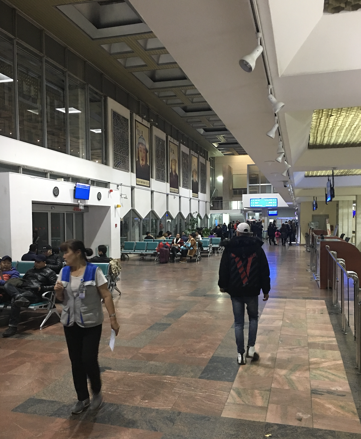 Interior of domestic terminal of Ulaanbaatar airport